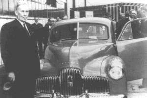 Launch of the Holden 48-215 by Prime Minister Ben Chifley.